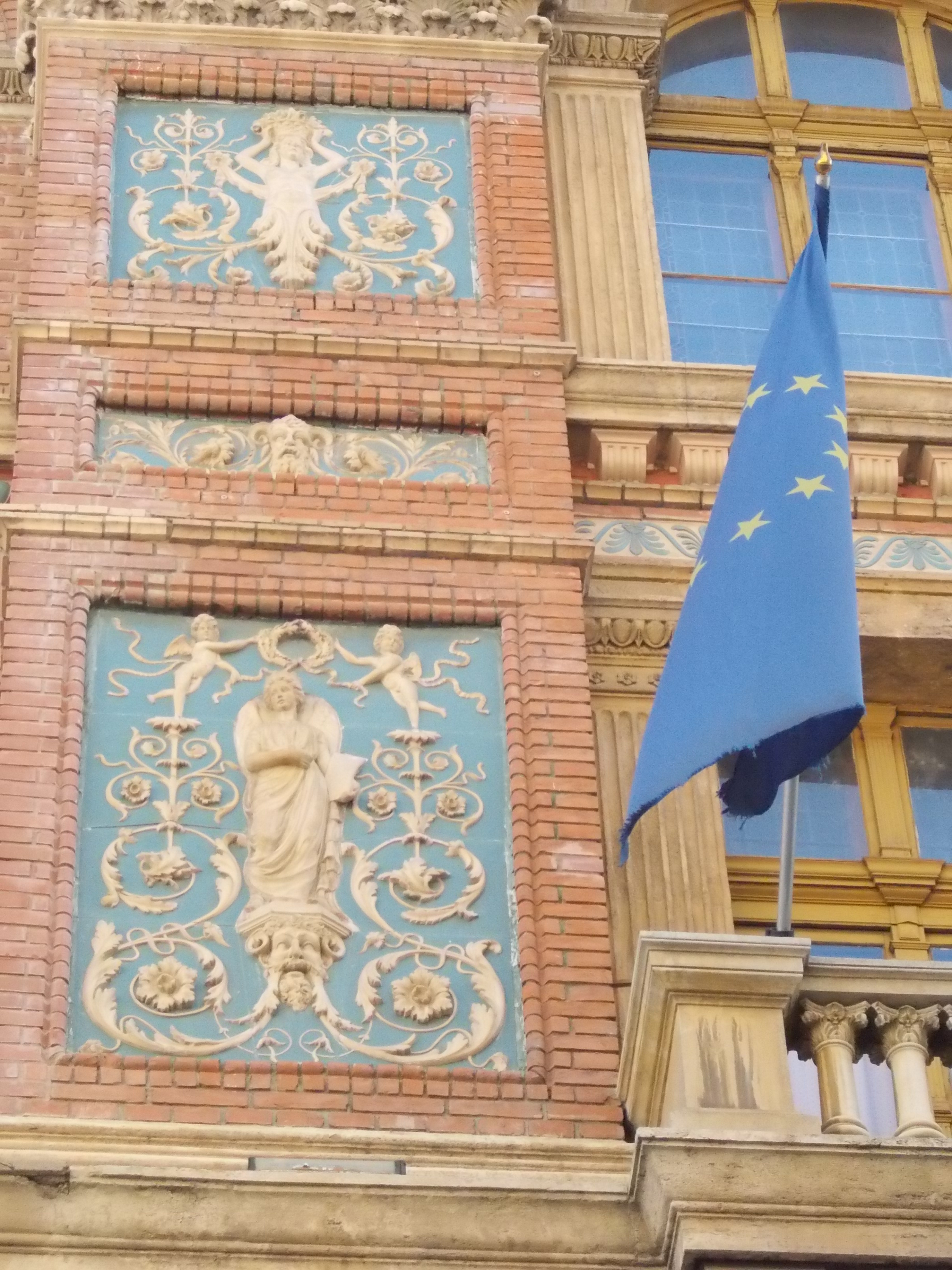 New City Hall. Glazed ceramic decorations. Listed ID 646. - 62-64, Váci utca, Budapest District V, Hungary